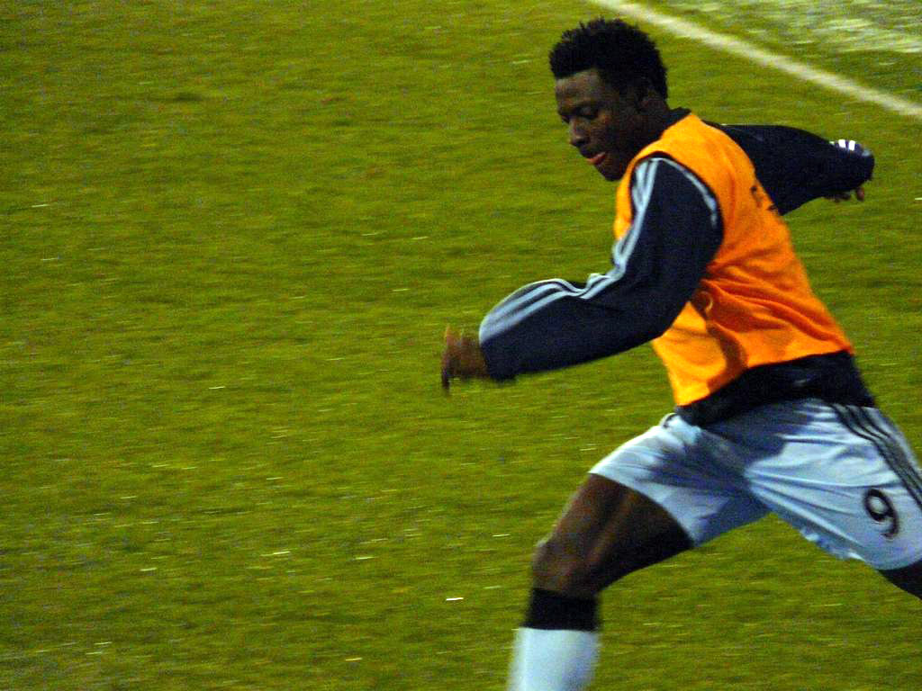 Nigerian football (soccer) player Obafemi Martins